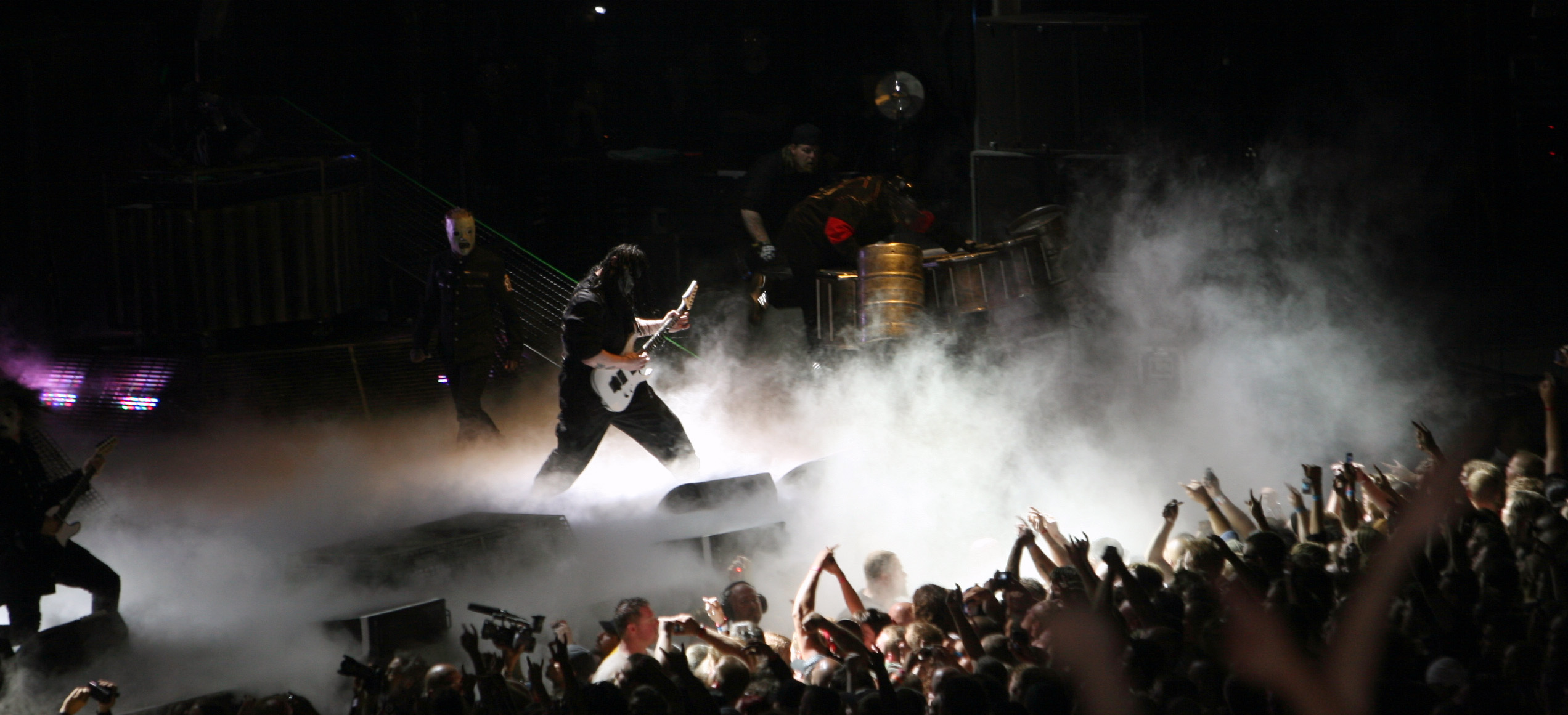 Slipknot at the mayhem festival 2008.